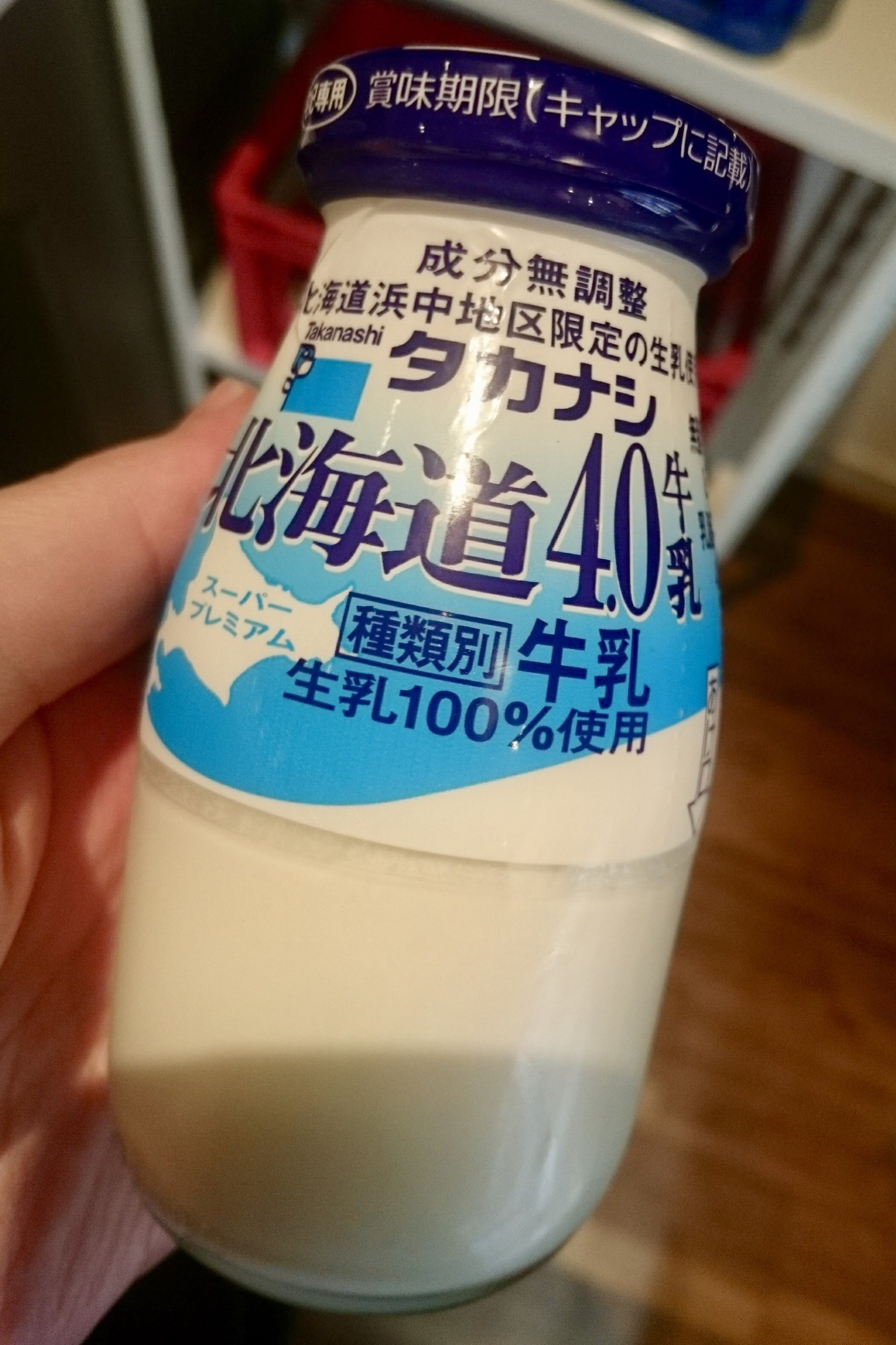 Takanashi's Hokkaido-milk(4.0% fat)